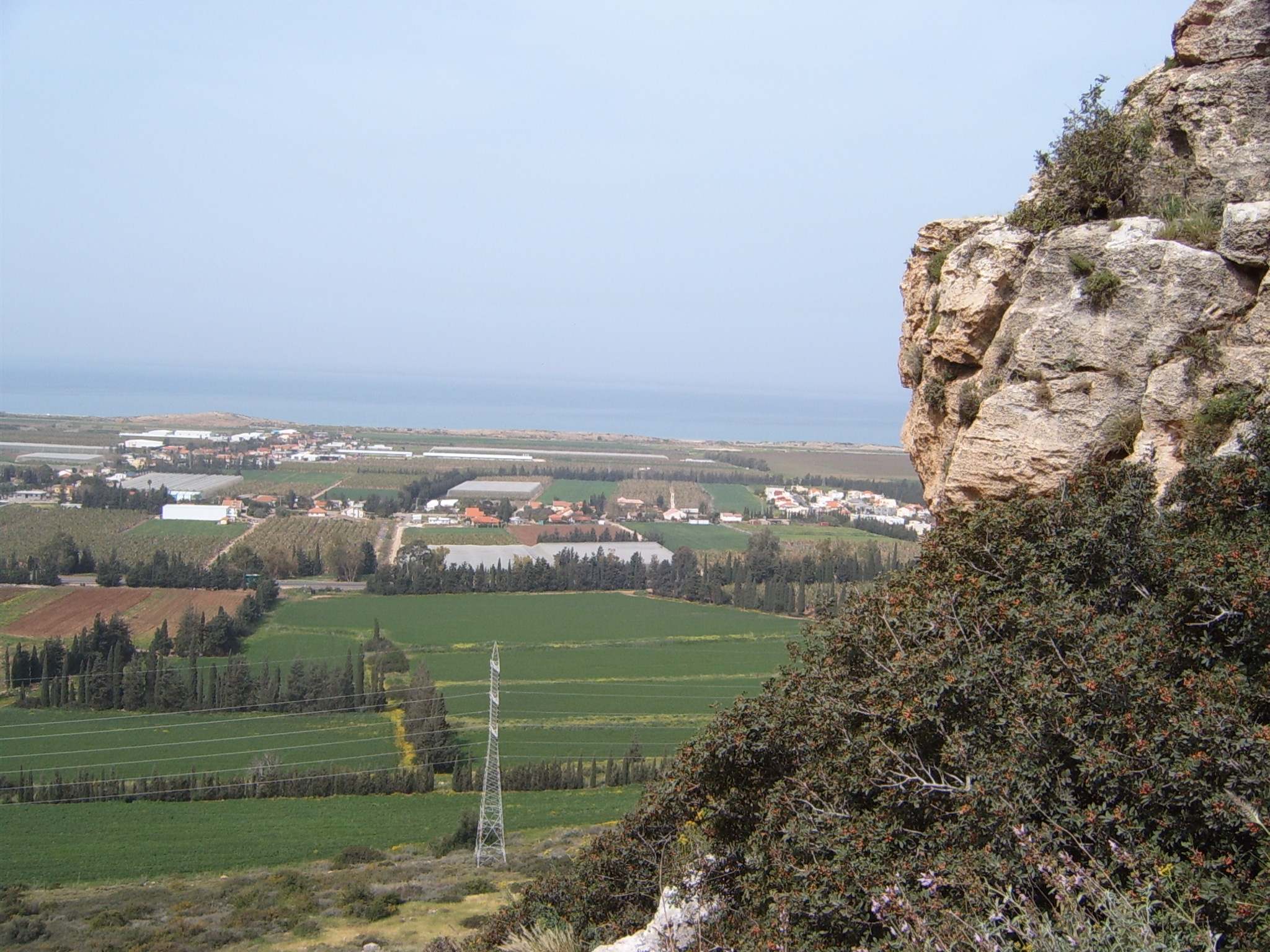 Mediterannean beach as seen from mt. Carmel